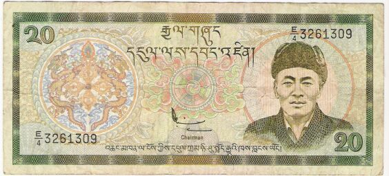 From Bhutan.